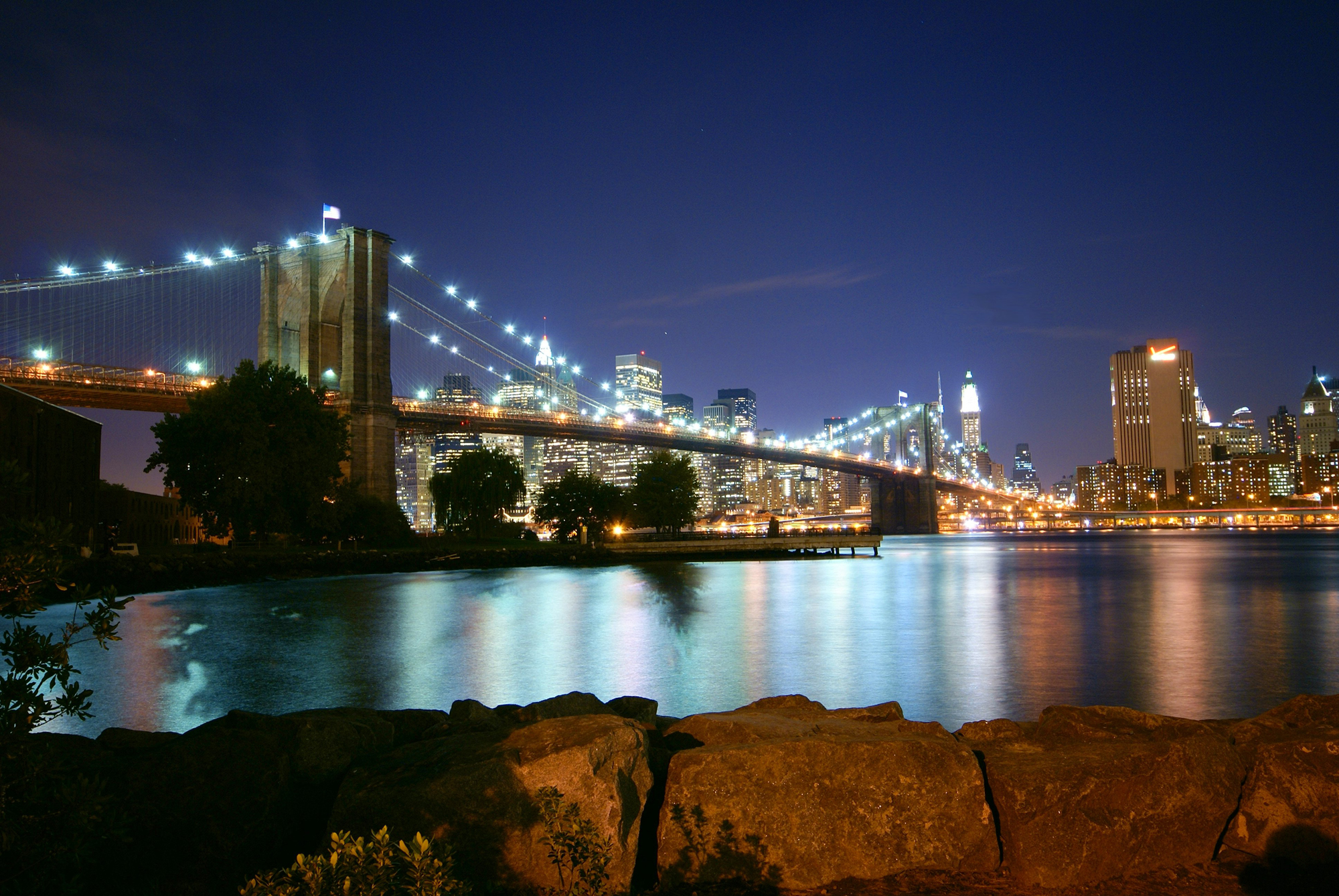 Brooklyn Bridge at Dusk. Photo of Brooklyn Bridge and the Lower Manhattan in background. I took this picture using Sony dslr A100 with Sigma 10-20mm 1:4-5.6DC EX Lens set at 20mm ;exposure 25sec at f7.1 ;ISO 100; white balance-incandescent